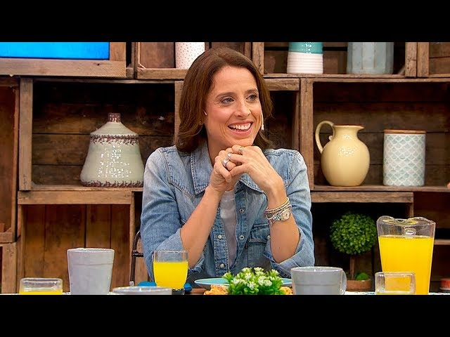 María Noel Riccetto in 2019.